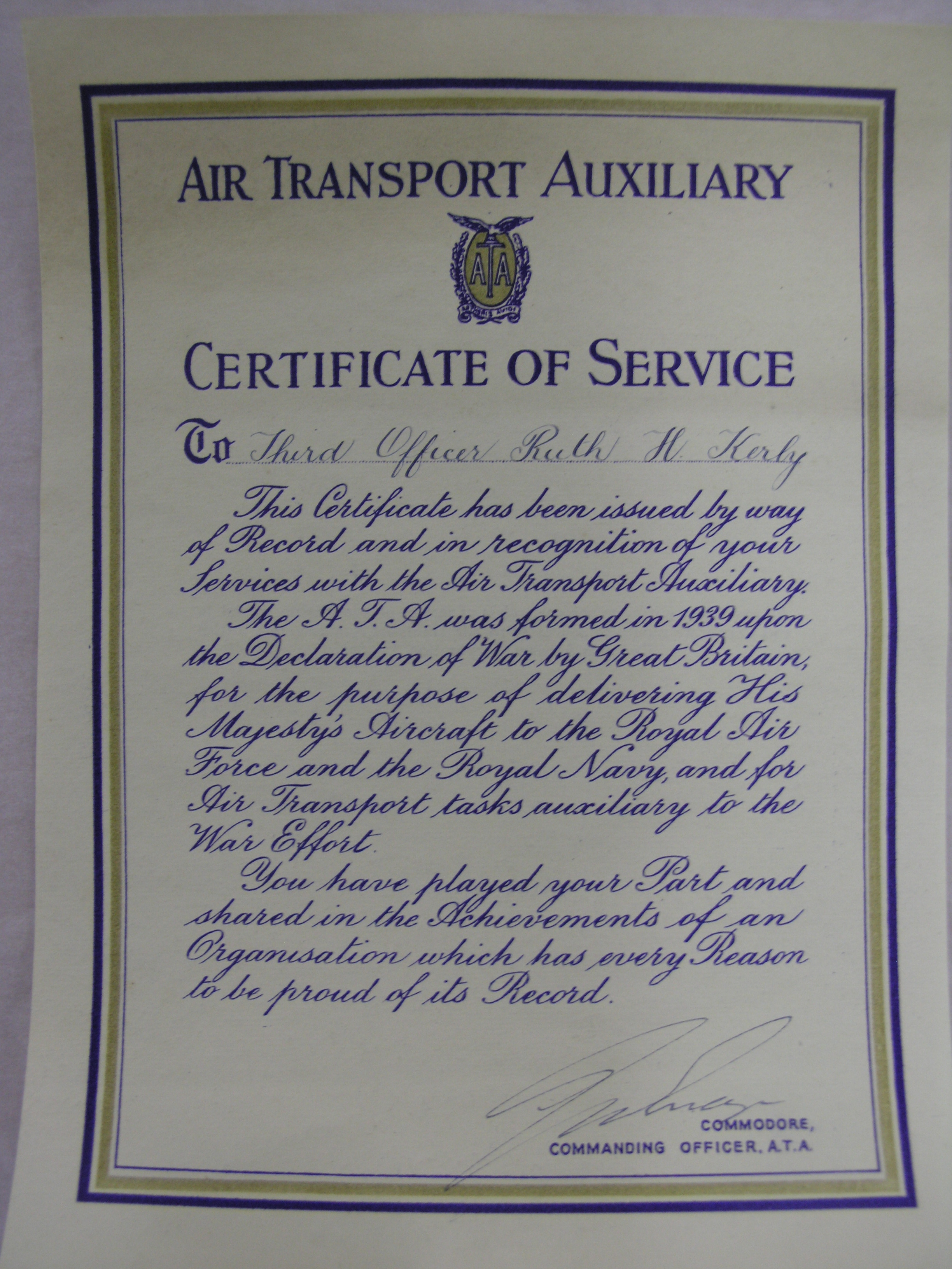 Helen Ruth Kelly - 1916-1992 commended ATA Spitfire pilot